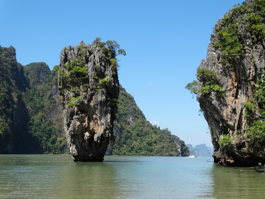 James Bond Island (Tapu, Thailand)